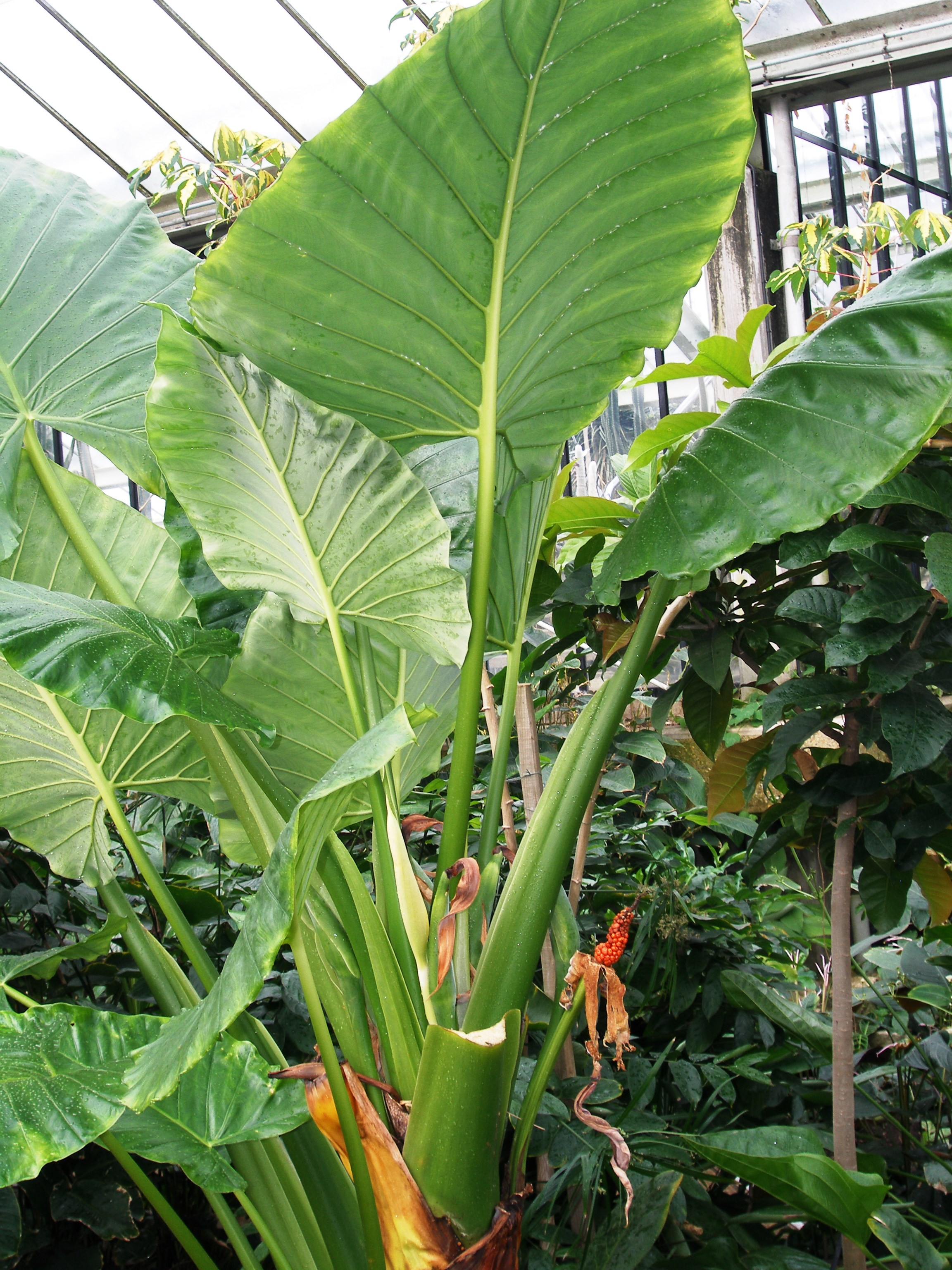 Specimen in cultivation at the Royal Botanic Gardens, Kew, United Kingdom.